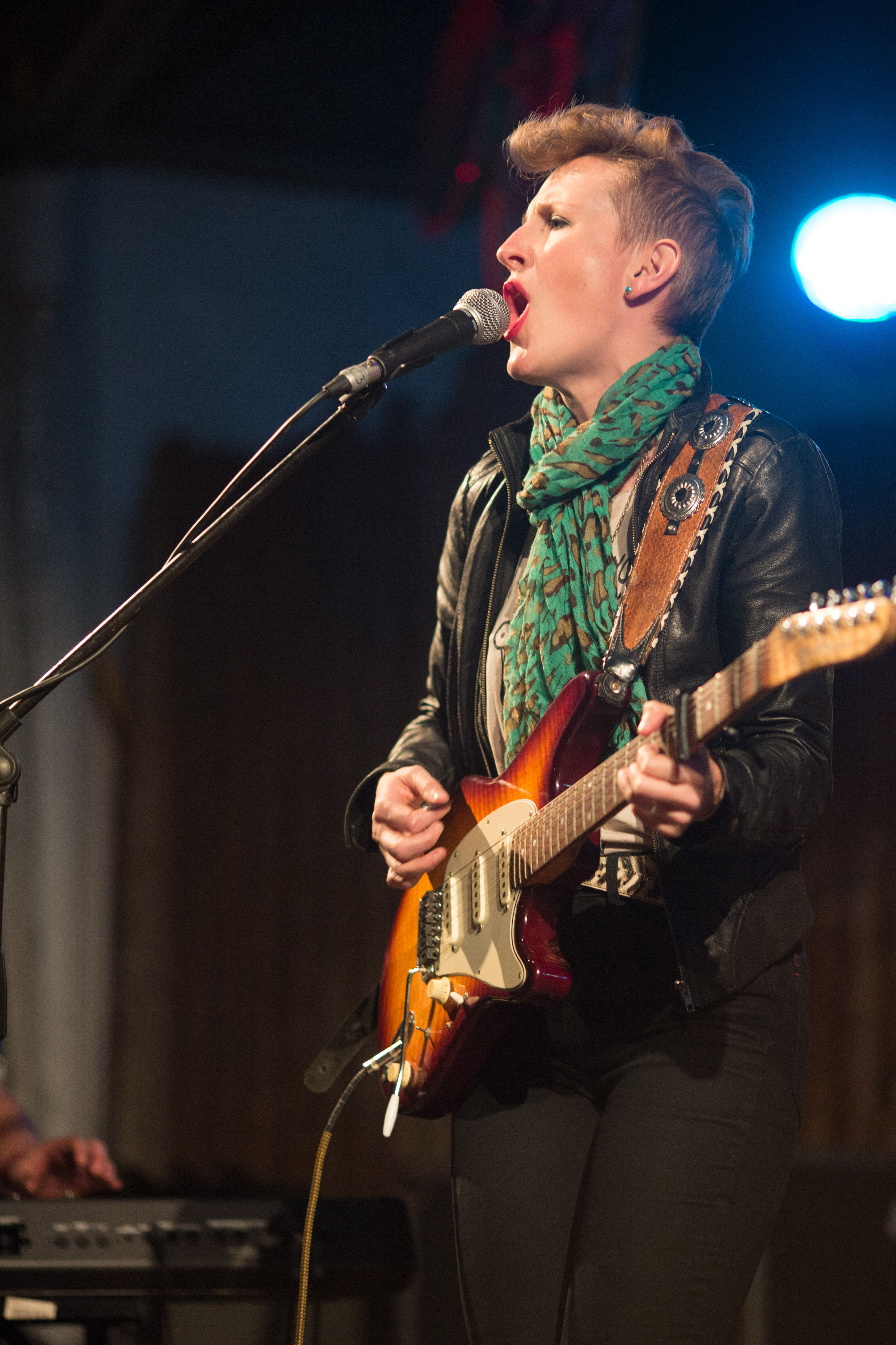 The Gumball 2013